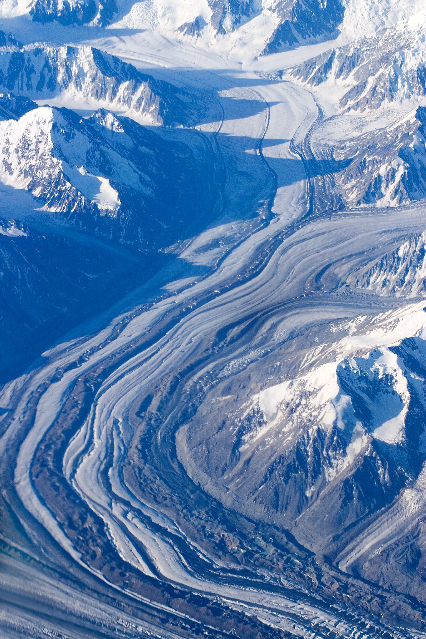 Ogilvie Glacier in the Saint Elias Mountains